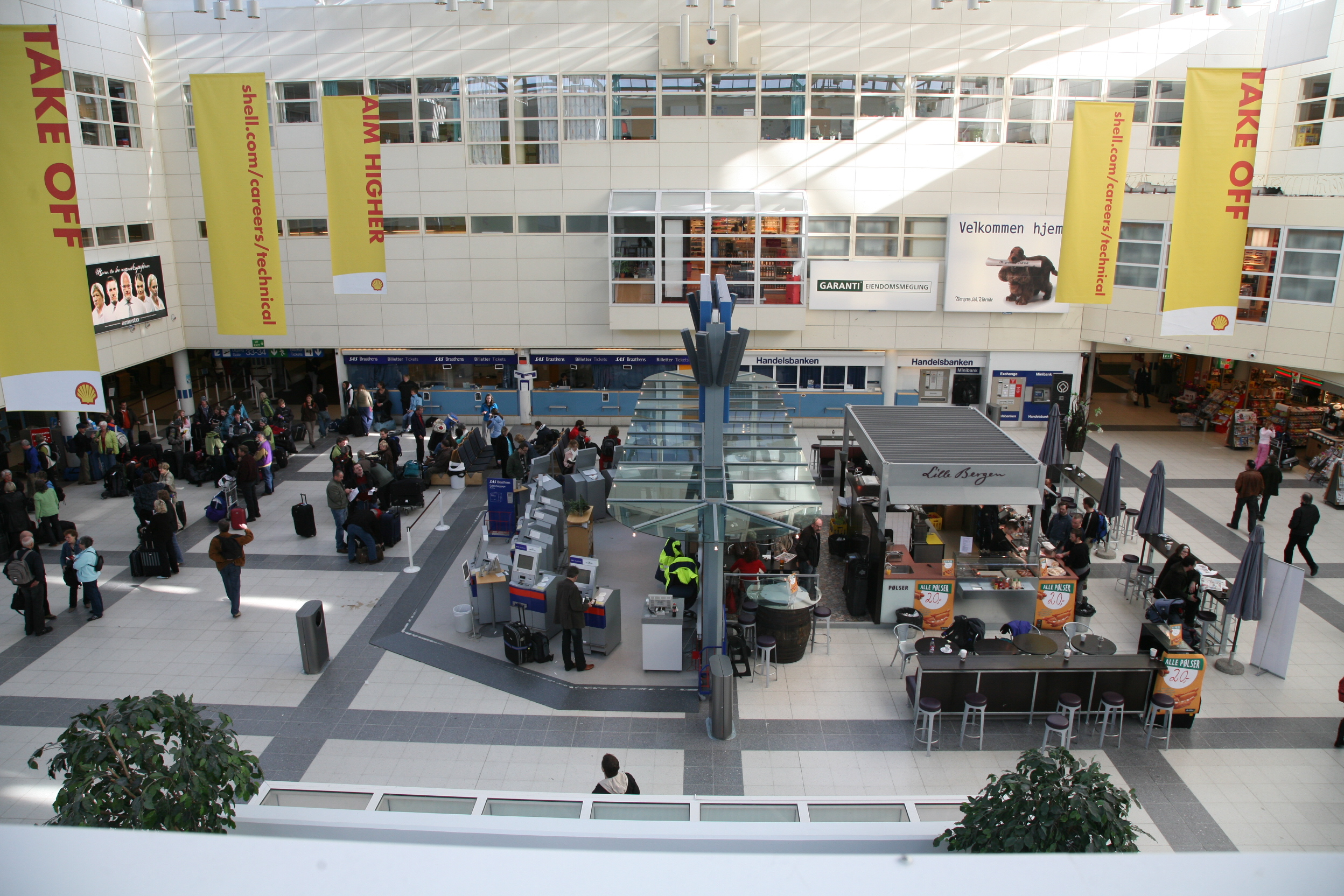 Interior of Bergen Airport, Flesland